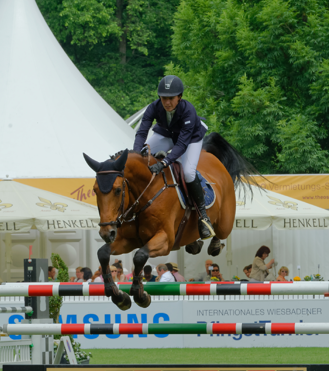 CSIYH* int. Springprüfung nach Strafpunkten und Zeit Internationales Pfingstturnier Wiesbaden 2015 The making of this document was supported by the Community-Budget of Wikimedia Germany.